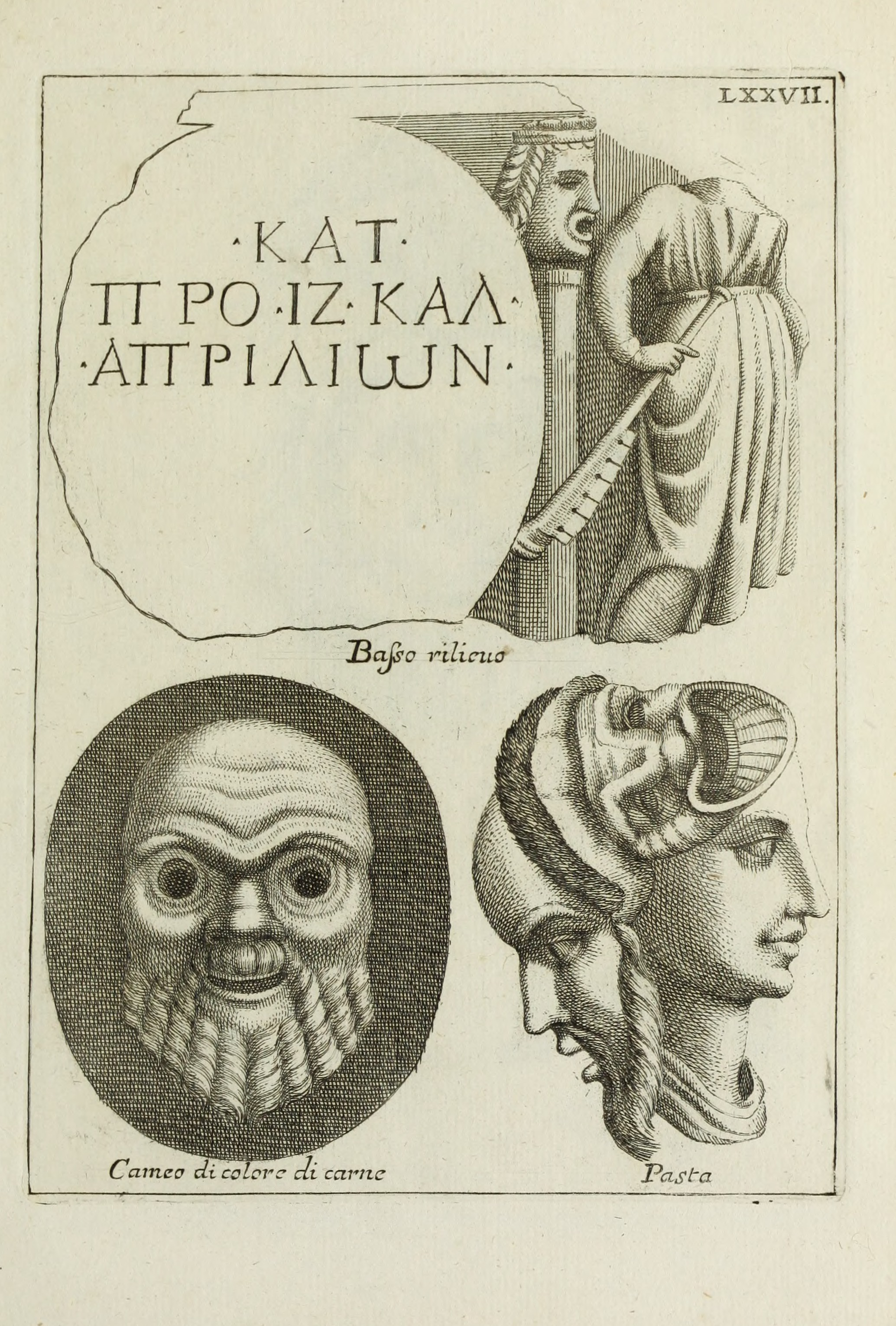 Title: Francisci Ficoronii Reg. Lond. Acad. socii dissertatio de larvis scenicis et figuris comicis antiquorum Romanorum, et ex Italica in Latinam linguam versa Year: 1754 (1750s) Authors: Ficoroni, Francesco, 1664-1747 Mazzoni, Francesco, active 1738-1759 Monaldini, Venanzio De Petris, B Pomarede, Silvio Rotili, Angelo Subjects: Theater Masks Latin drama (Comedy) Small sculpture, Roman Gems Publisher: Romae, sumptibus Venantii Monaldini, bibliopolae in Via Cursus. Typis Angeli Rotilii in aedibus Maximorum Text Appearing Before Image: ' Text Appearing After Image: '